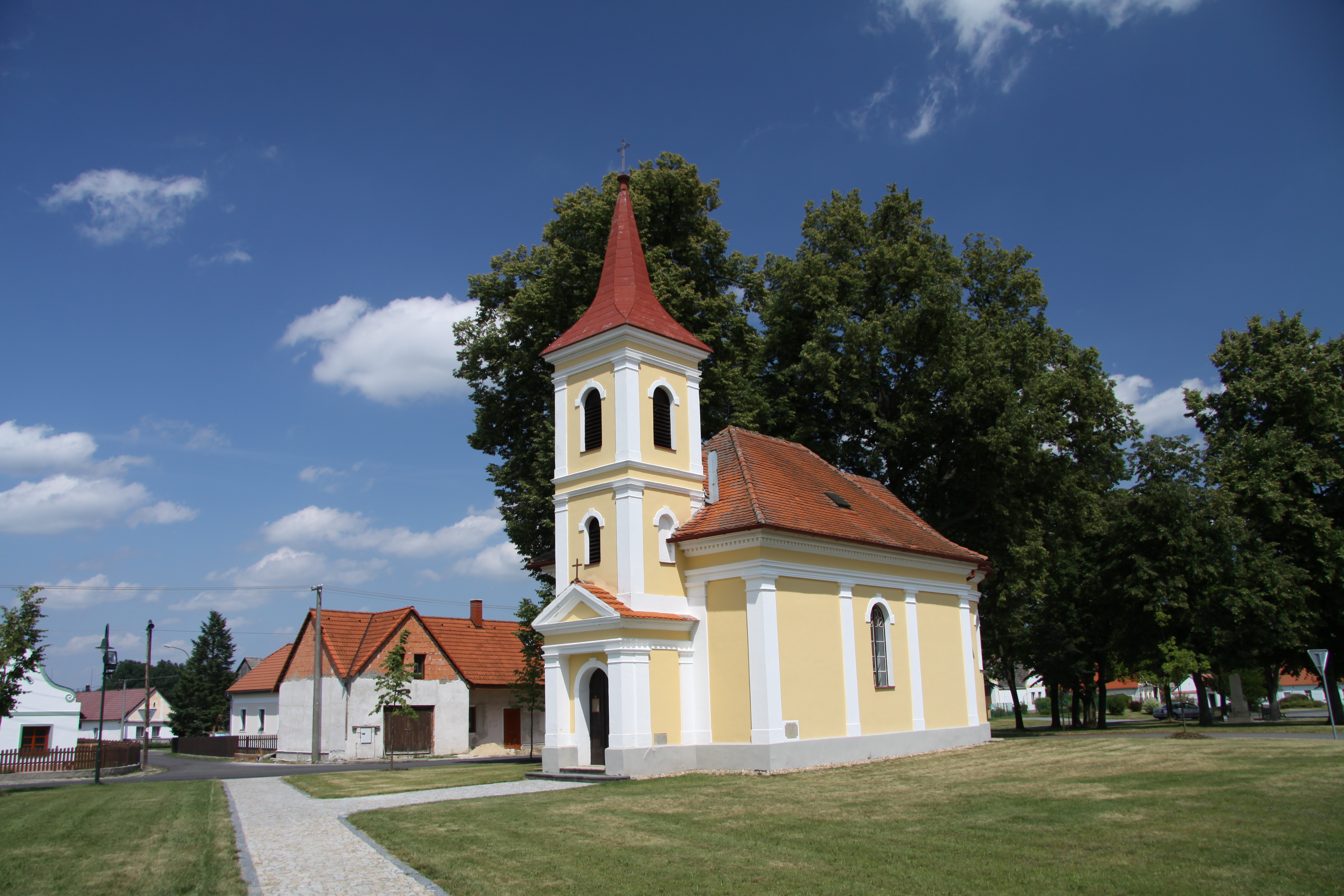 Chapel in Lužnice village in Jindřichův Hradec District, Czech Republic - Google Maps - Google Earth